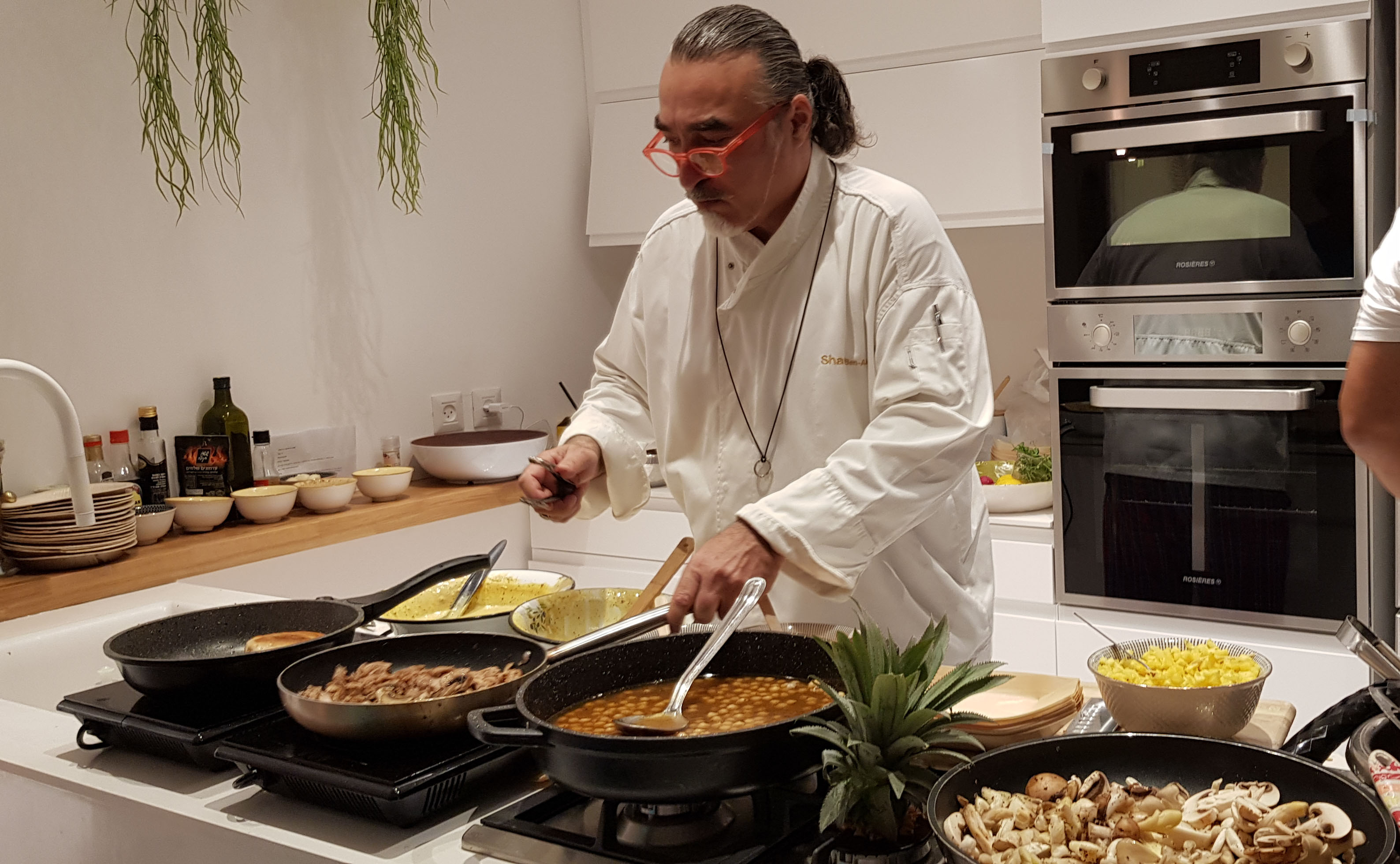 Israeli chef Shaul Ben Aderet, July 2018